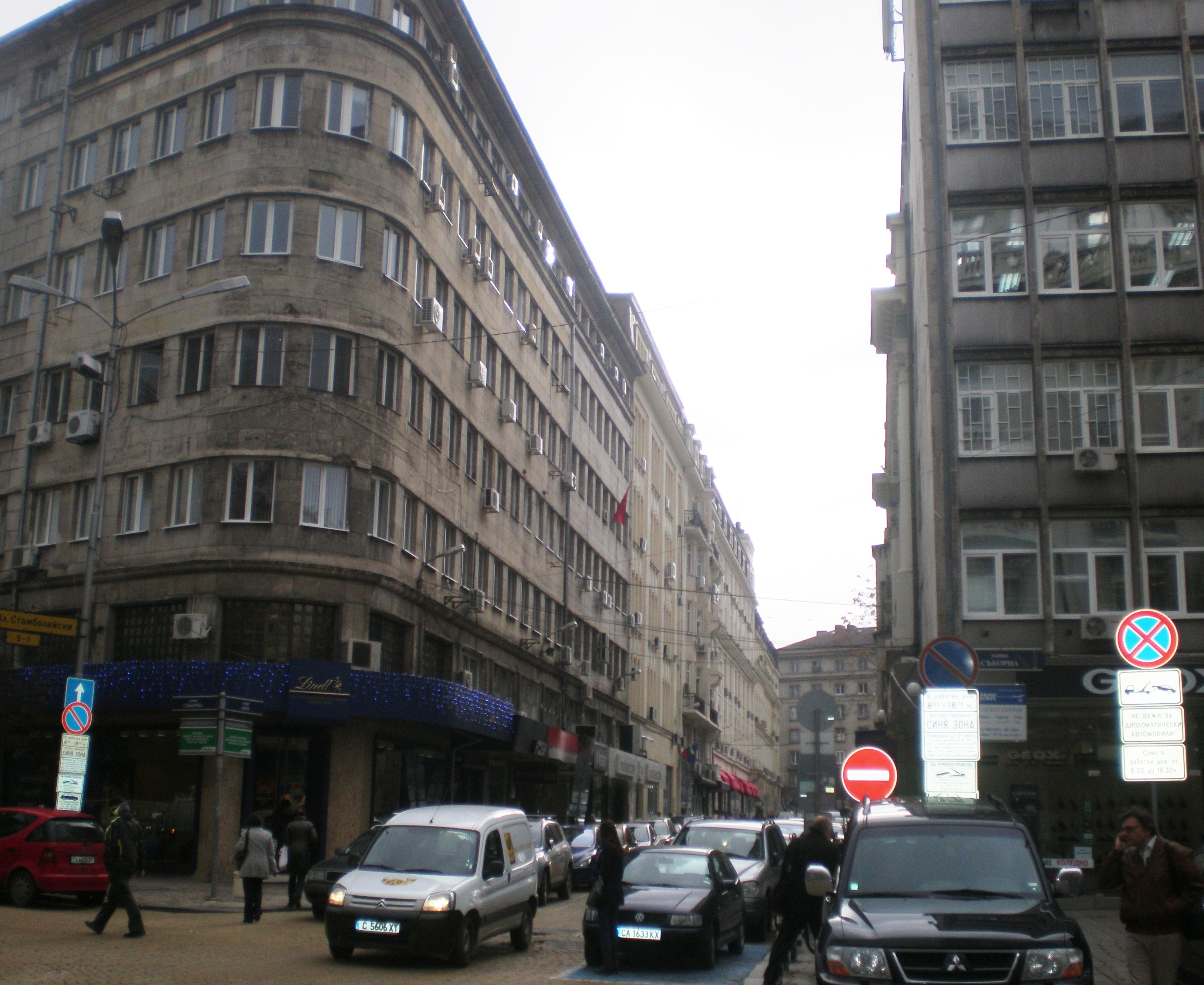 Lege street, Sofia, Bulgaria